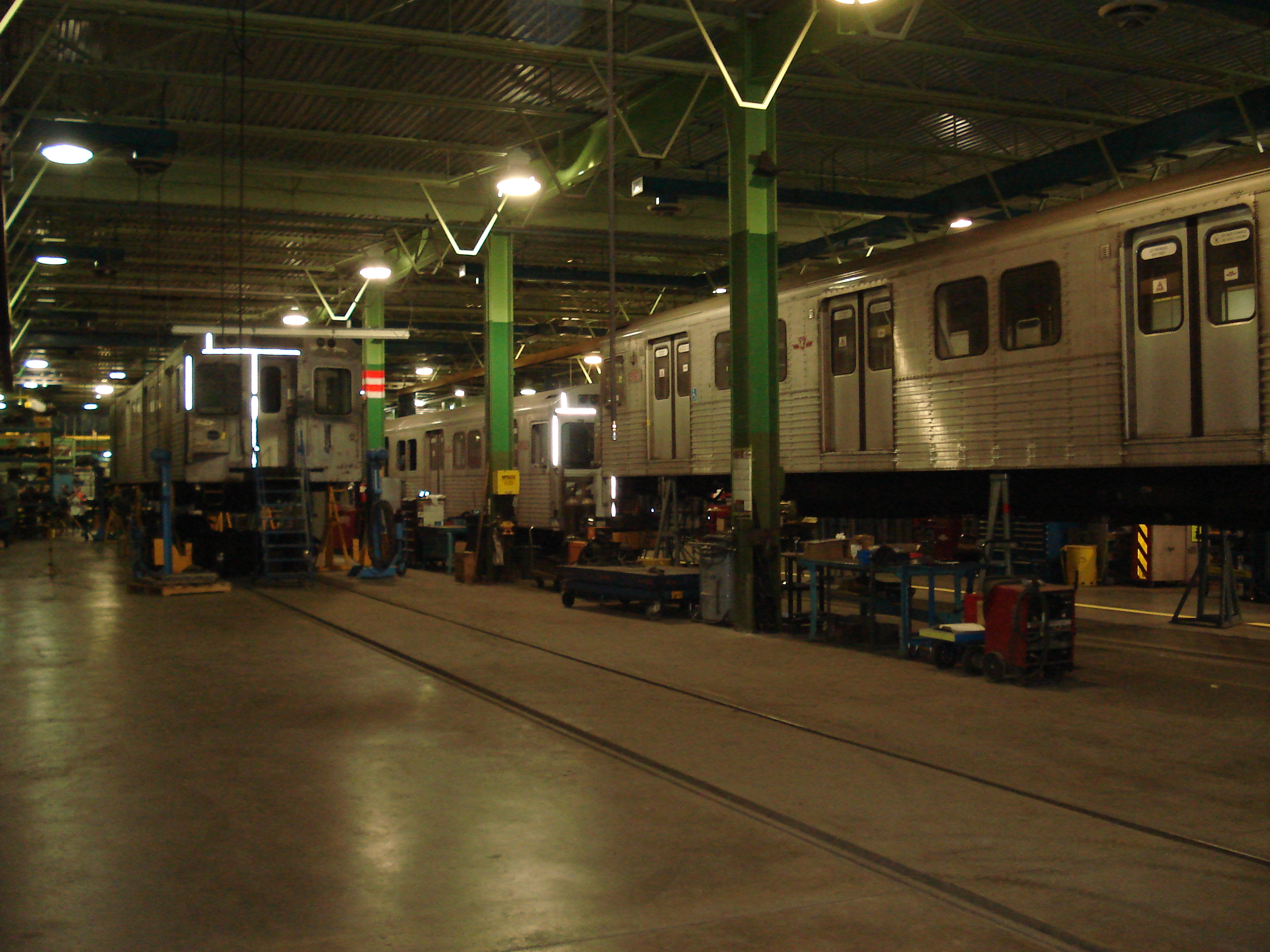 Shot of the floor of the Greenwood shops during Toronto's Doors open event in 2009